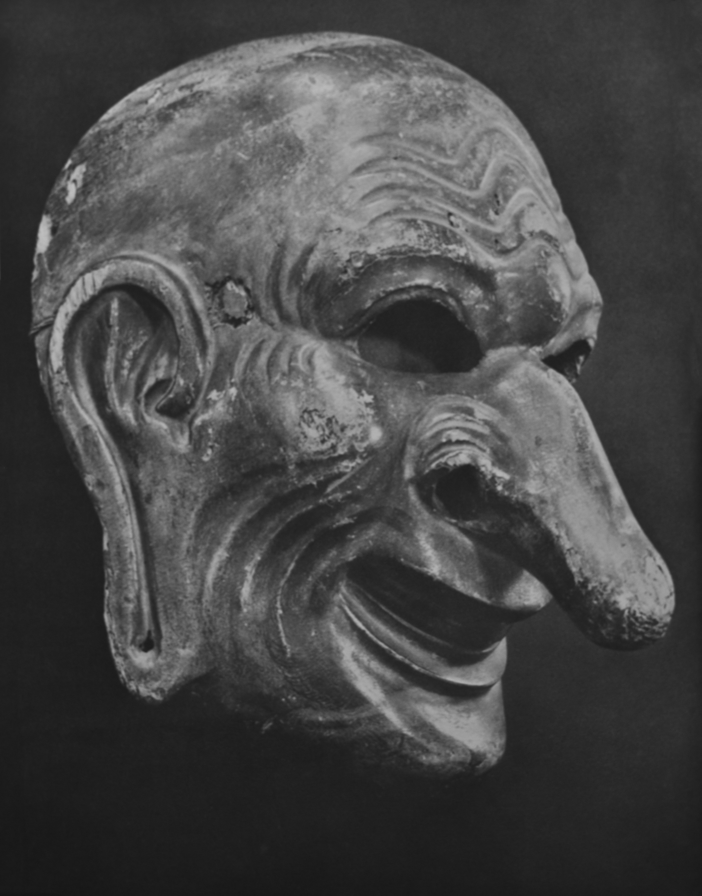 Todaiji, Nara, Japan